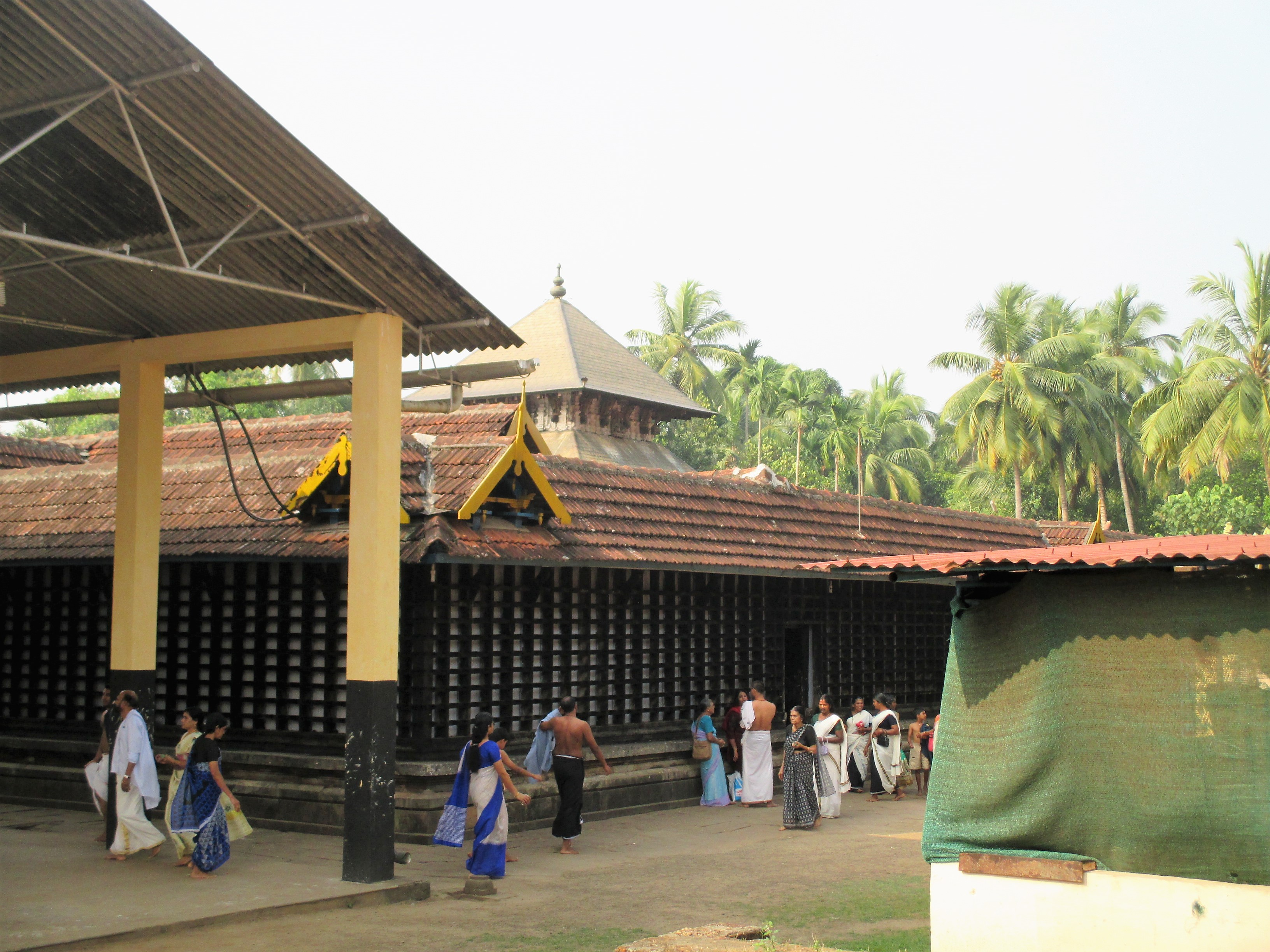 Thirunavaya temple